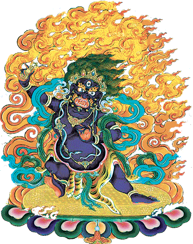 Vajrapani